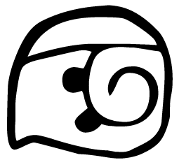 Maya:glyph:logogram:calendric:Tzolkin:Day10:Ok:codex+W:v01. Img created by CJLL Wright.